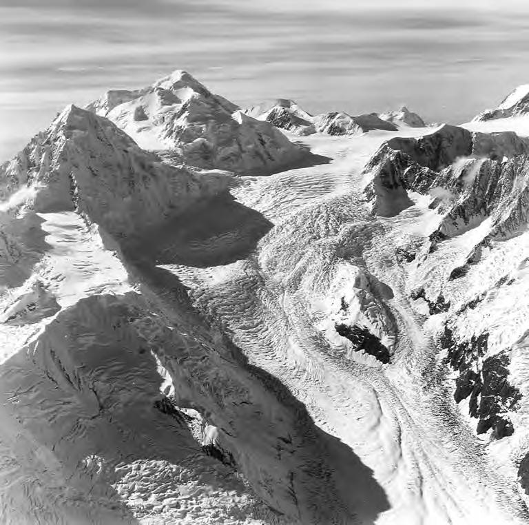 Margerie Glacier, tidewater glacier, icefall and cirque glaciers, September 18, 1972